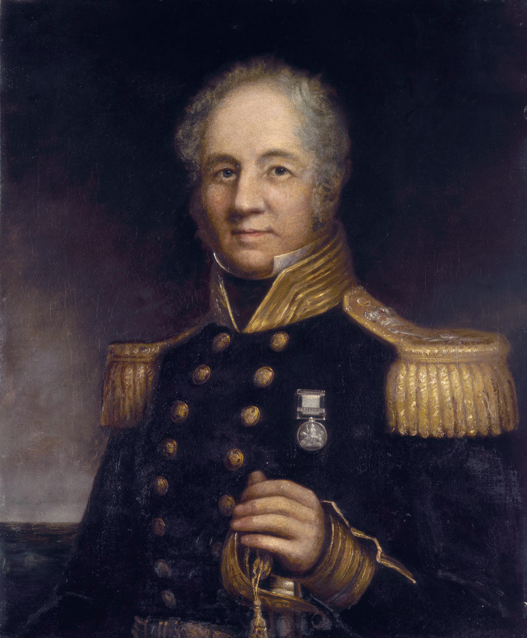 Rear-Admiral John Pasco (1774-1853) oil on canvas 76 x 63.5 cm circa 1850